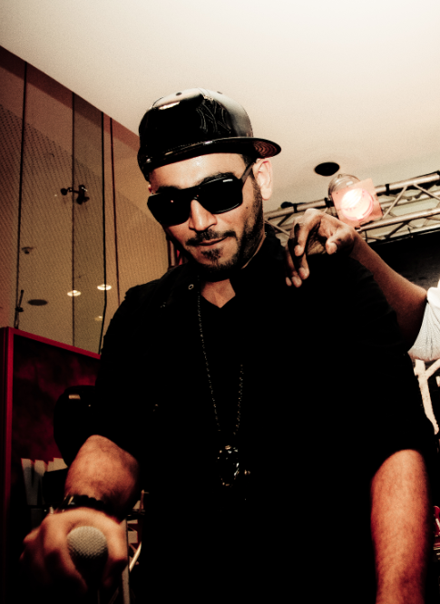 Image of DJ Bliss.